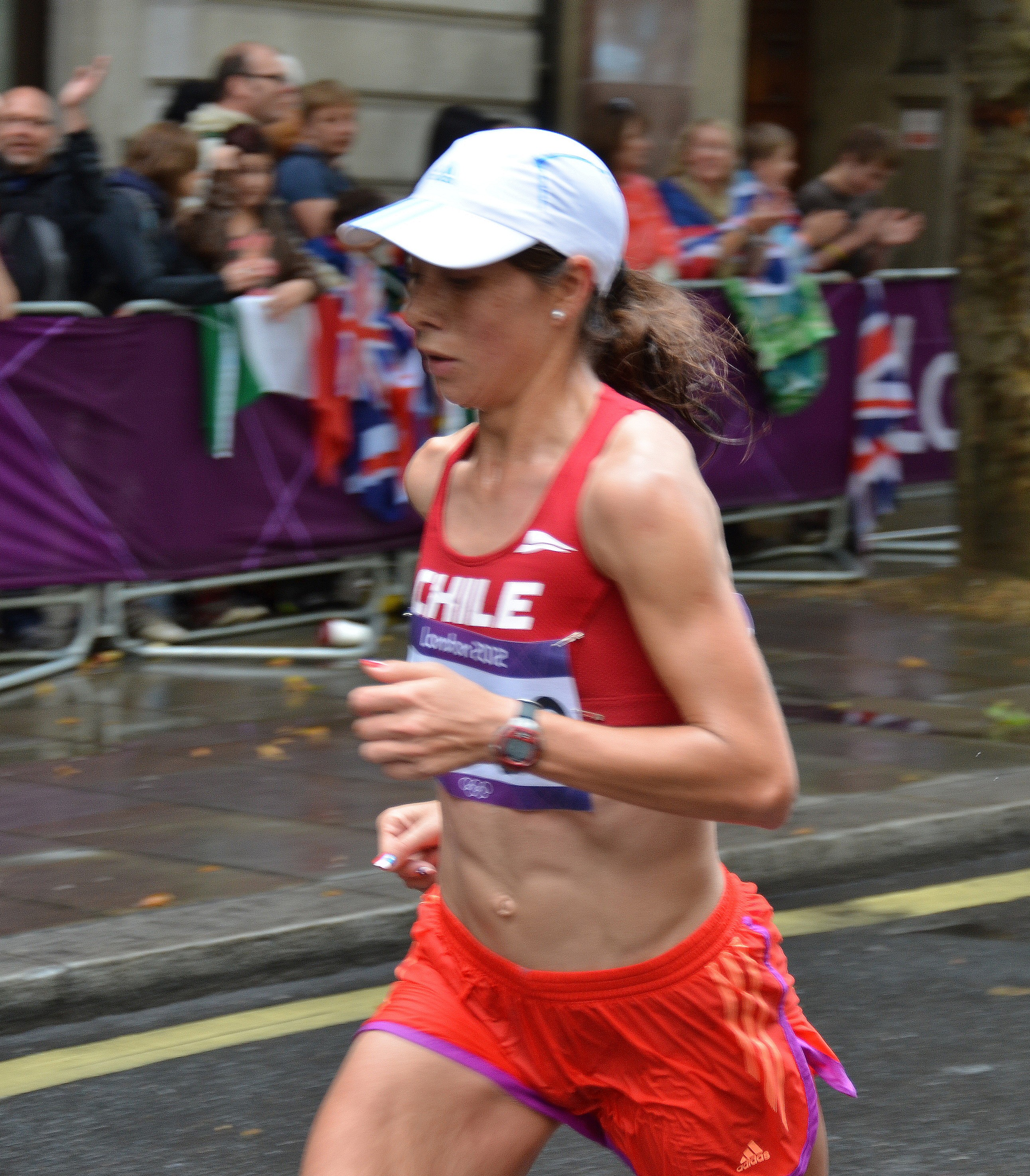 Natalia Romero (Chile) in the marathon (w) at the Olympic Games 2012